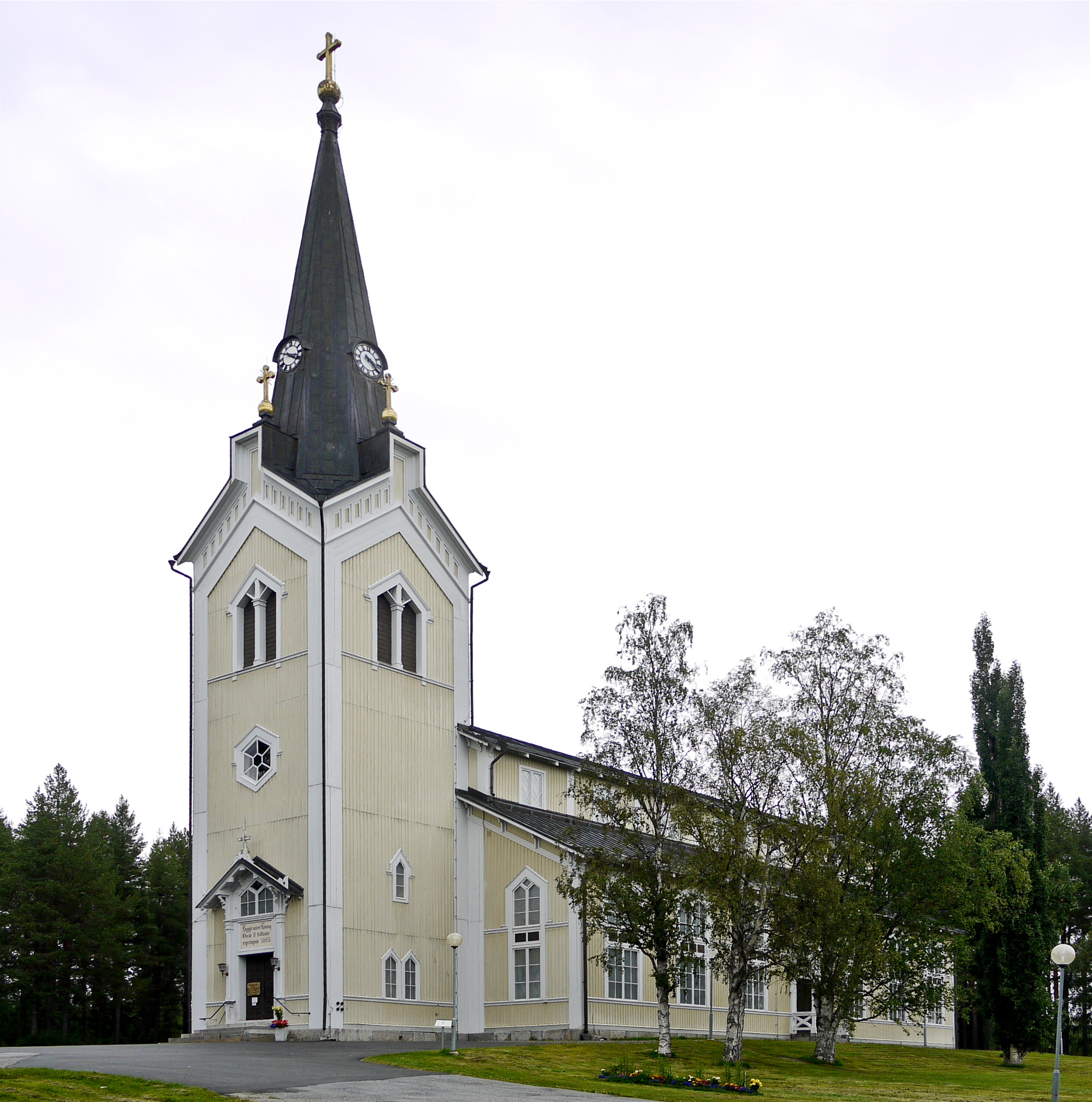 Stensele church, Diocese of Luleå, Storuman, Sweden.